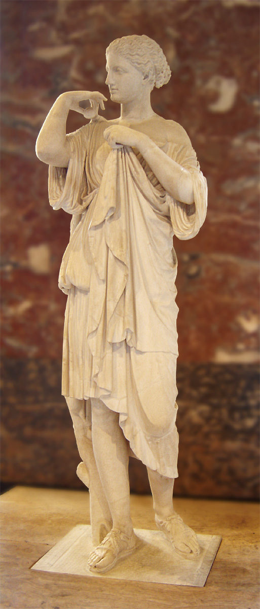 Statue of Artemis called Diana of Gabies. Marble, Roman imperial period (under Tiberius' reign, 14 – 37 AD). Found by G. Hamilton in 1792 in Gabies, Italy.